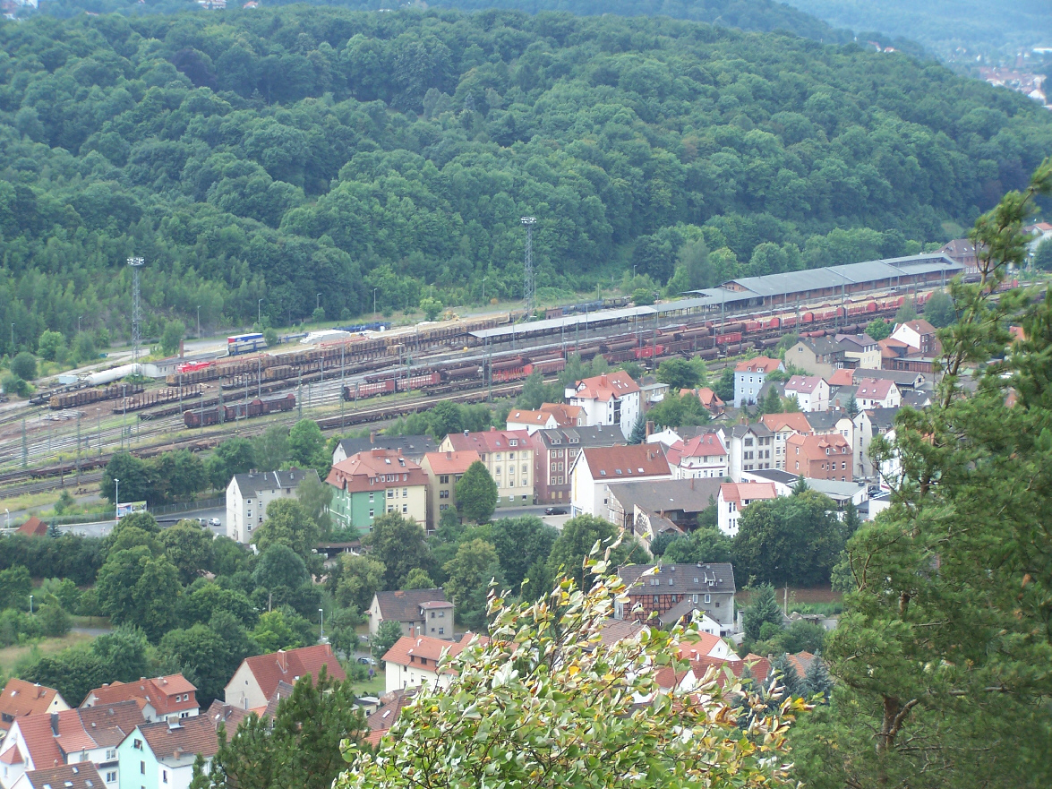 The freight depot in Eisenach.